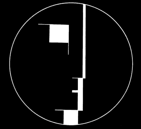 Signet of the Staatliche Bauhaus, designed by Oskar Schlemmer and used from 1922 (Wingler, Hans M.; Wolfgang Jabs and Basil Gilbert, transl. (1969) [1962] Joseph Stein , ed. Bauhaus: Weimar, Dessau, Berlin, Chicago, Cambridge: MIT Press ISBN: 0-262-23033-X. )